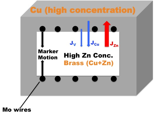 This image shows how difference in diffusion fluxes causes the Kirkendall Effect.